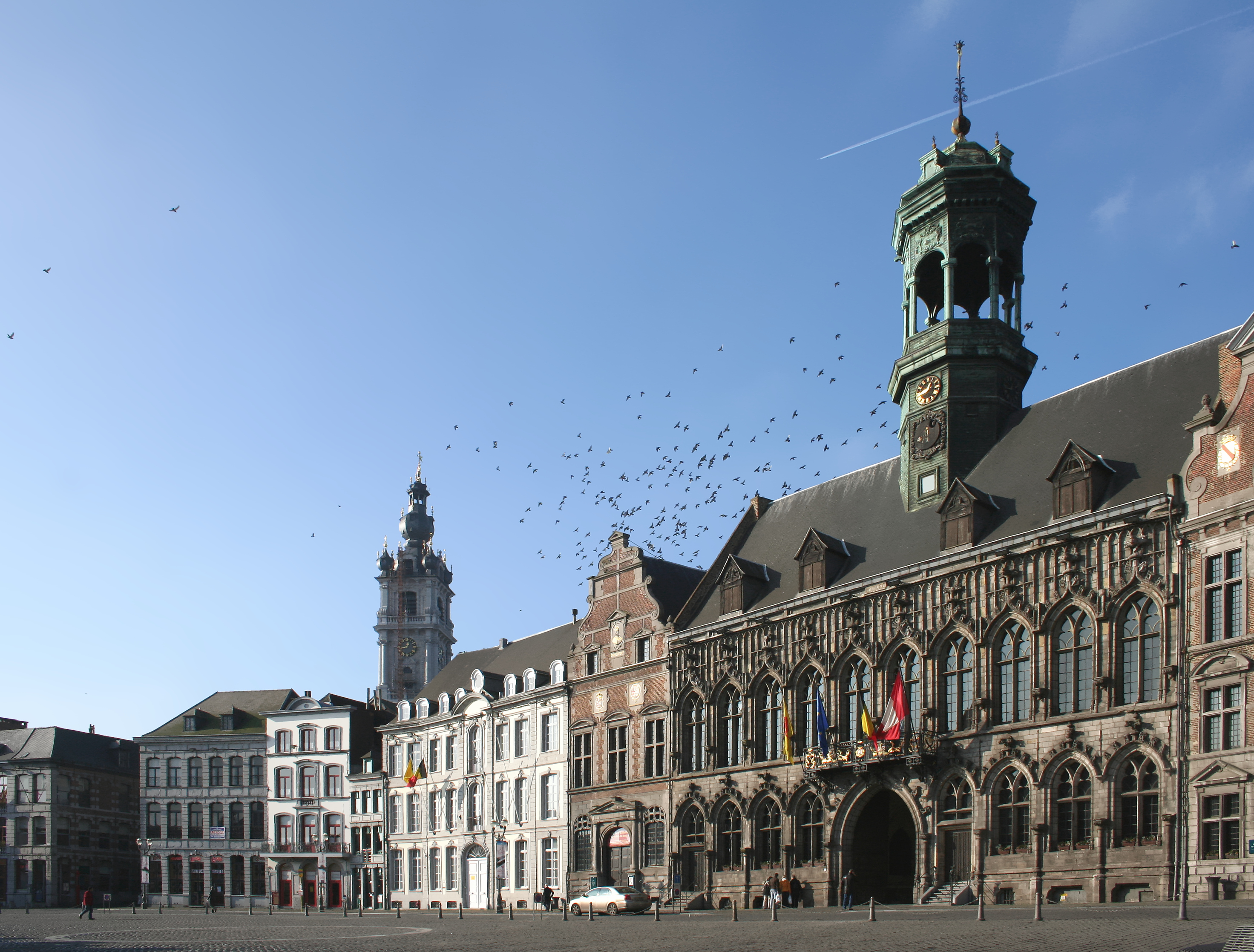 Mons (Belgium), the Grand'Place, the city hall and the belfry.